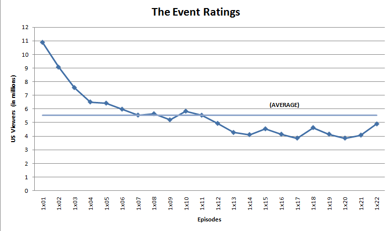 Overall Performance Ratings of The Event in United States